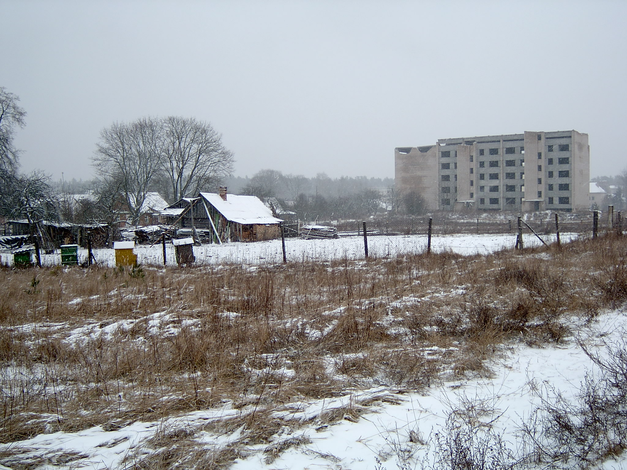 Surroundings of KrižiLatviešu: Križu apkārtne